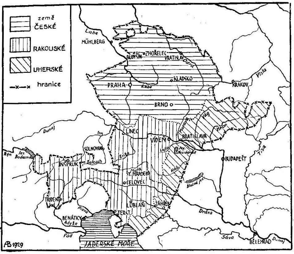 Map showing territories ruled by the Habsburgs in the 16th century. (1. Czech lands, 2. Austrian lands and 3. Hungarian lands.)